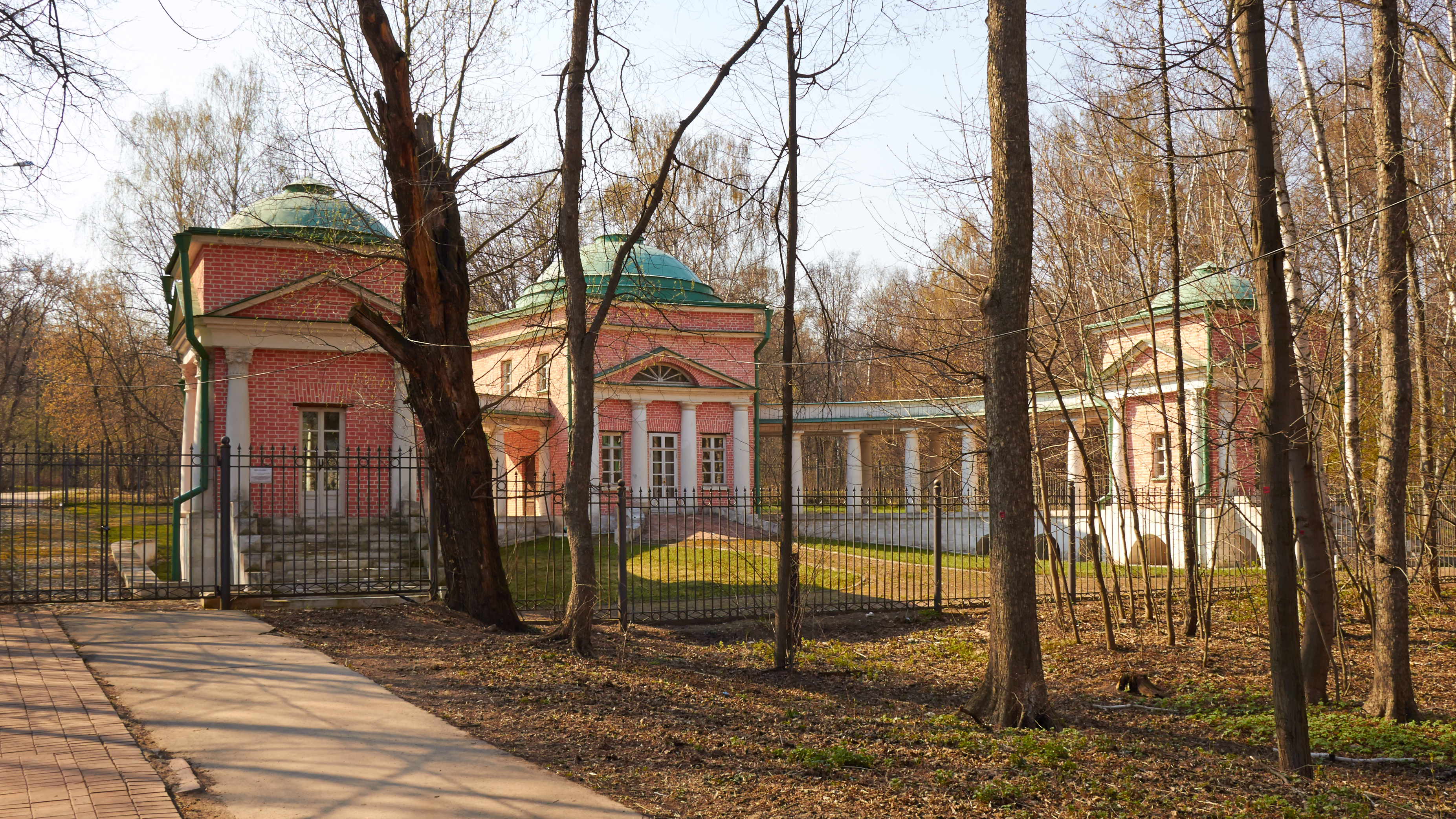 Poultry-yard, Vlakhernskoye-Kuzminki, Moscow